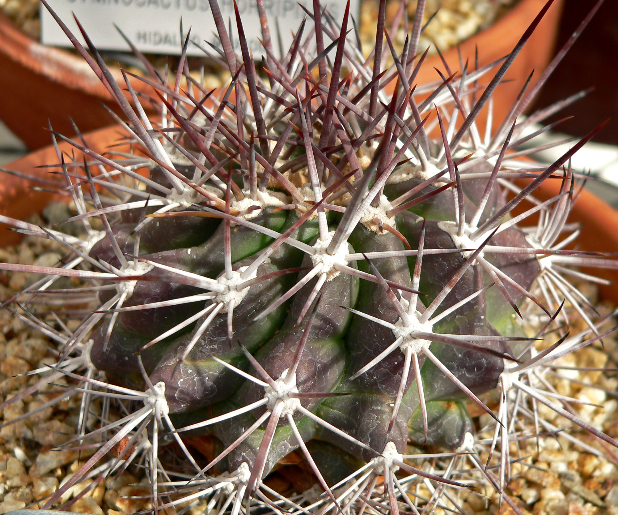 Ferocactus lindsayi at the University of California Botanical Garden, Berkeley, California